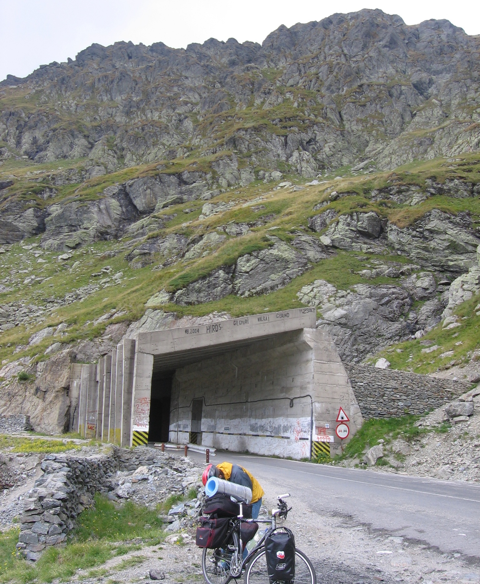 Transfăgărăşan tunnel near Lake Bâlea in Făgăraş Mountains (Romania)